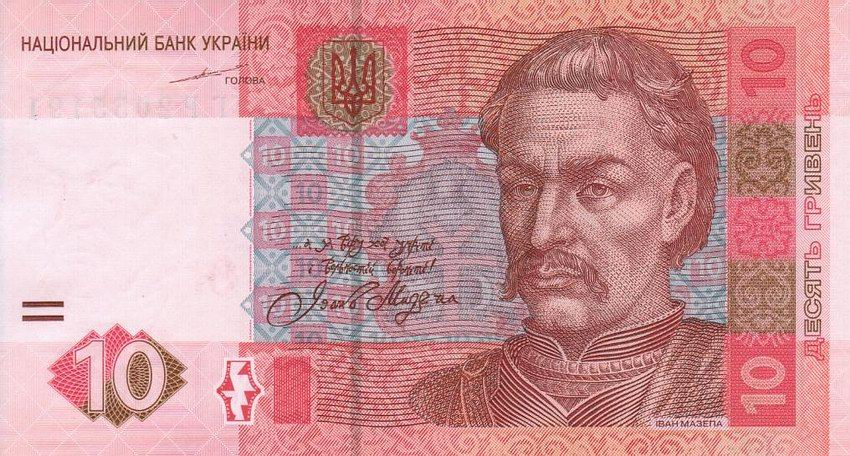 10 Hryvnia 2004 front